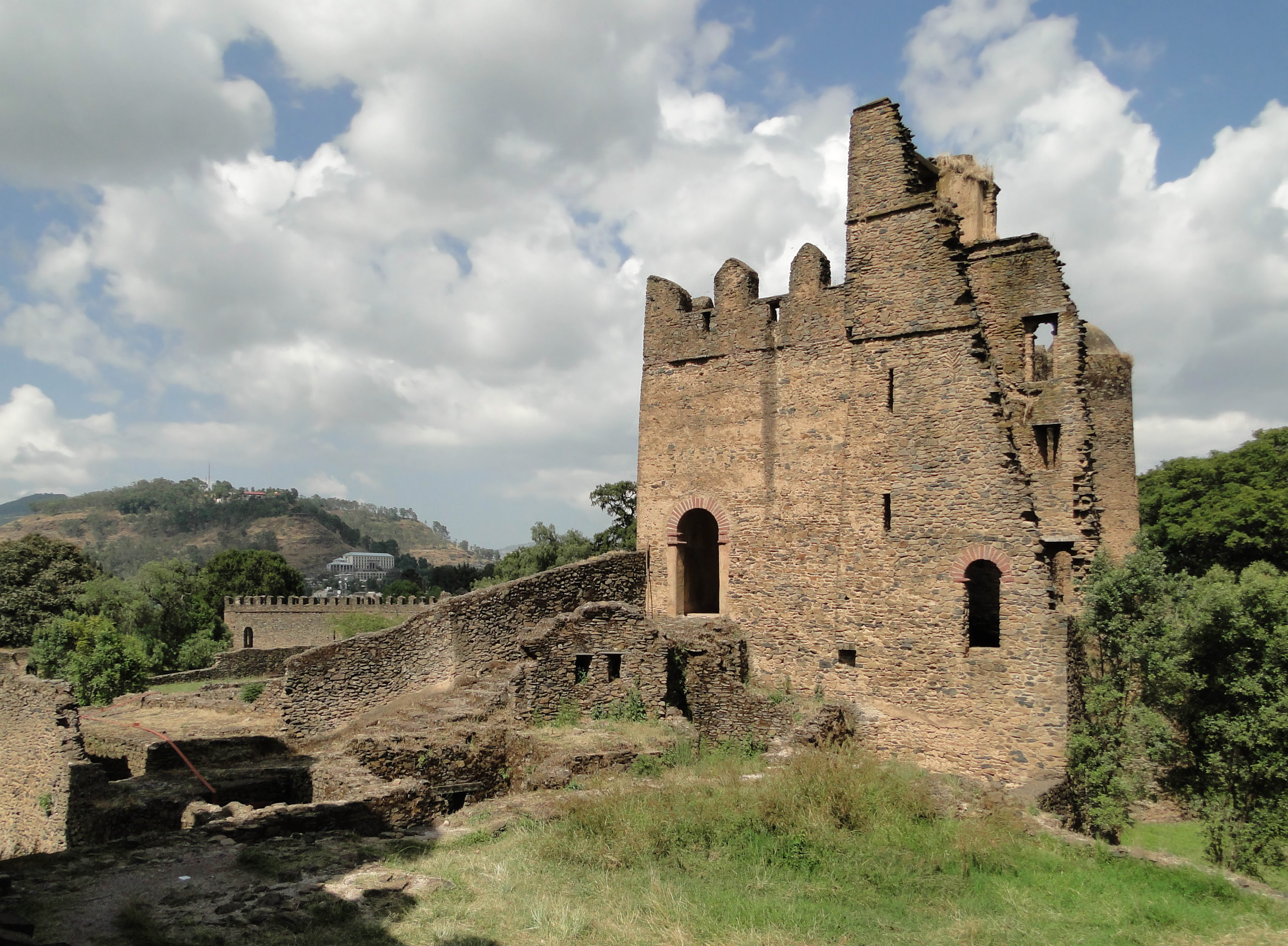 Iyasu's Palace in the Fasil Ghebbi, Gondar, Ethiopia